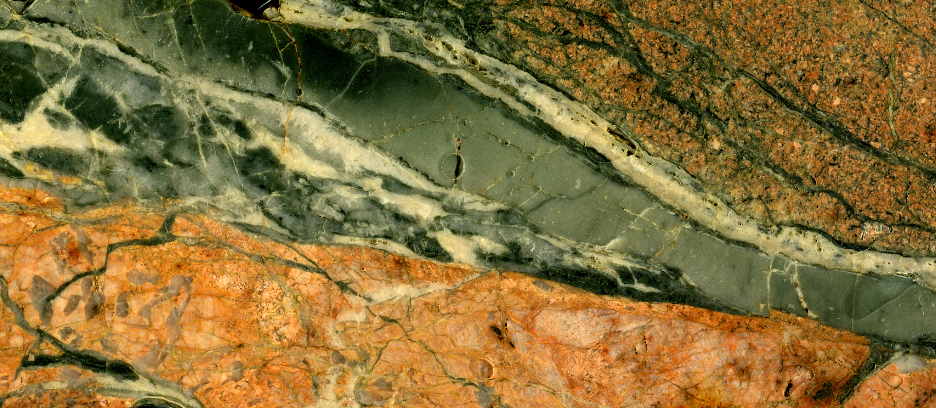 Impact pseudotachylite (cut surface; field of view 16.6 cm across) - impact-fractured granite (orangish areas - K-feldspar & quartz) with grayish- to blackish-colored impact pseudotachylite (impact melt) vein fillings. The rock name "pseudotachylite" has long been applied to vein-filling impact melts in impact-fractured rocks - the impact melt has a glassy to cryptocrystalline texture. Fault zone movement can also generate melt, which cools down to very similar-looking material. Fault zone melt rocks have also been called pseudotachylites. The term “pseudotachylite” was originally defined based on melt rocks of impact origin. Despite this, Reimold & Gibson in 2005 published a 53-page paper that basically says “you shouldn't call impact melts pseudotachylites anymore” and “only fault zone melt rocks should be called pseudotachylites”. A simpler, more logical solution is two have two terms: "impact pseudotachylite" & "fault zone pseudotachylite". The sample shown here is impact-fractured basement rock from well below the original crater floor of the Rochechouart Impact Crater in west-central France. The impact event, basement rock fracturing event, and pseudotachylite formation event all occurred 214 million years ago, during the Norian Stage of the mid-Late Triassic. ------------------ Reference on pseudotachylite: Reimold, W.U. & R.L. Gibson. 2005. “Pseudotachylites” in large impact structures. in Impact tectonics. Impact Studies 8: 1-53.